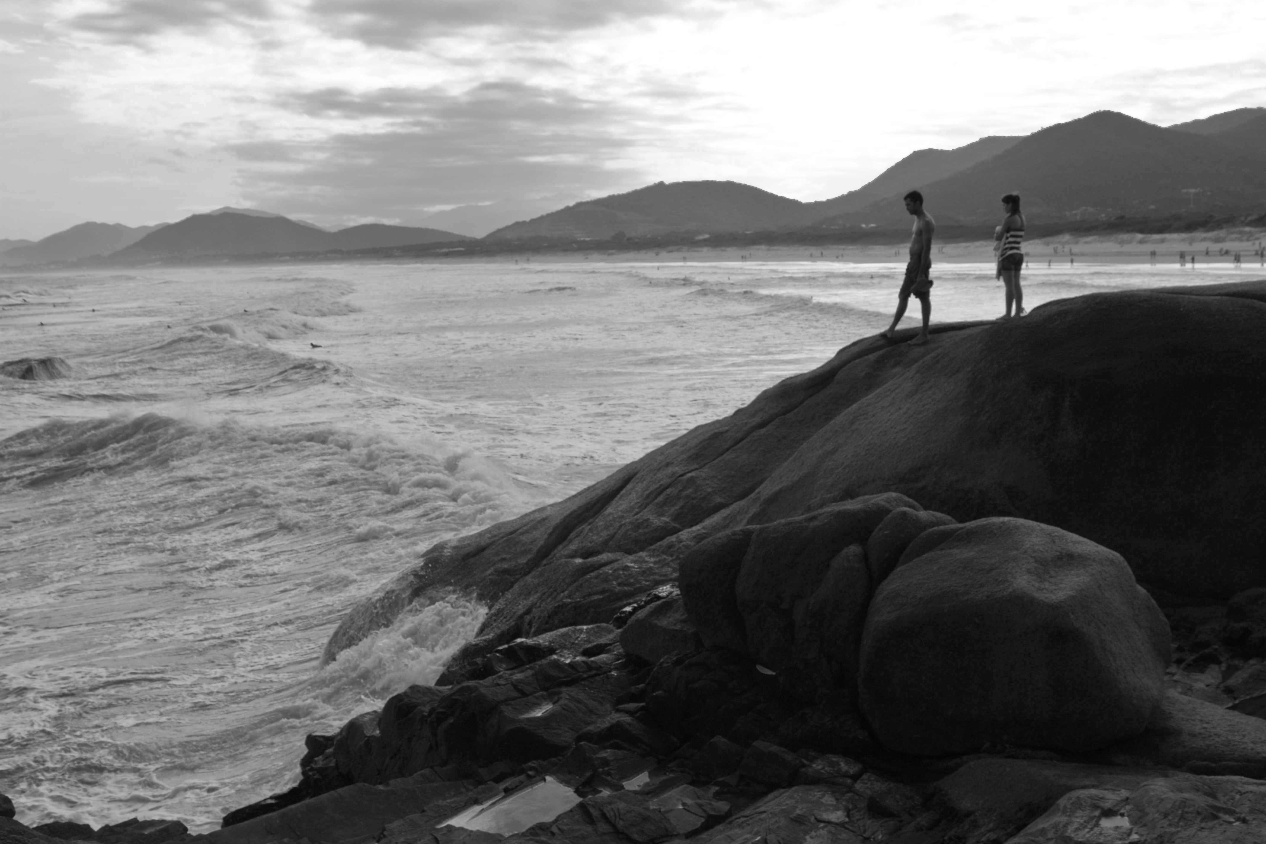 Shot from the rocks on the northern side of Joaquina Beach, in Florianopolis, in late afternoon.